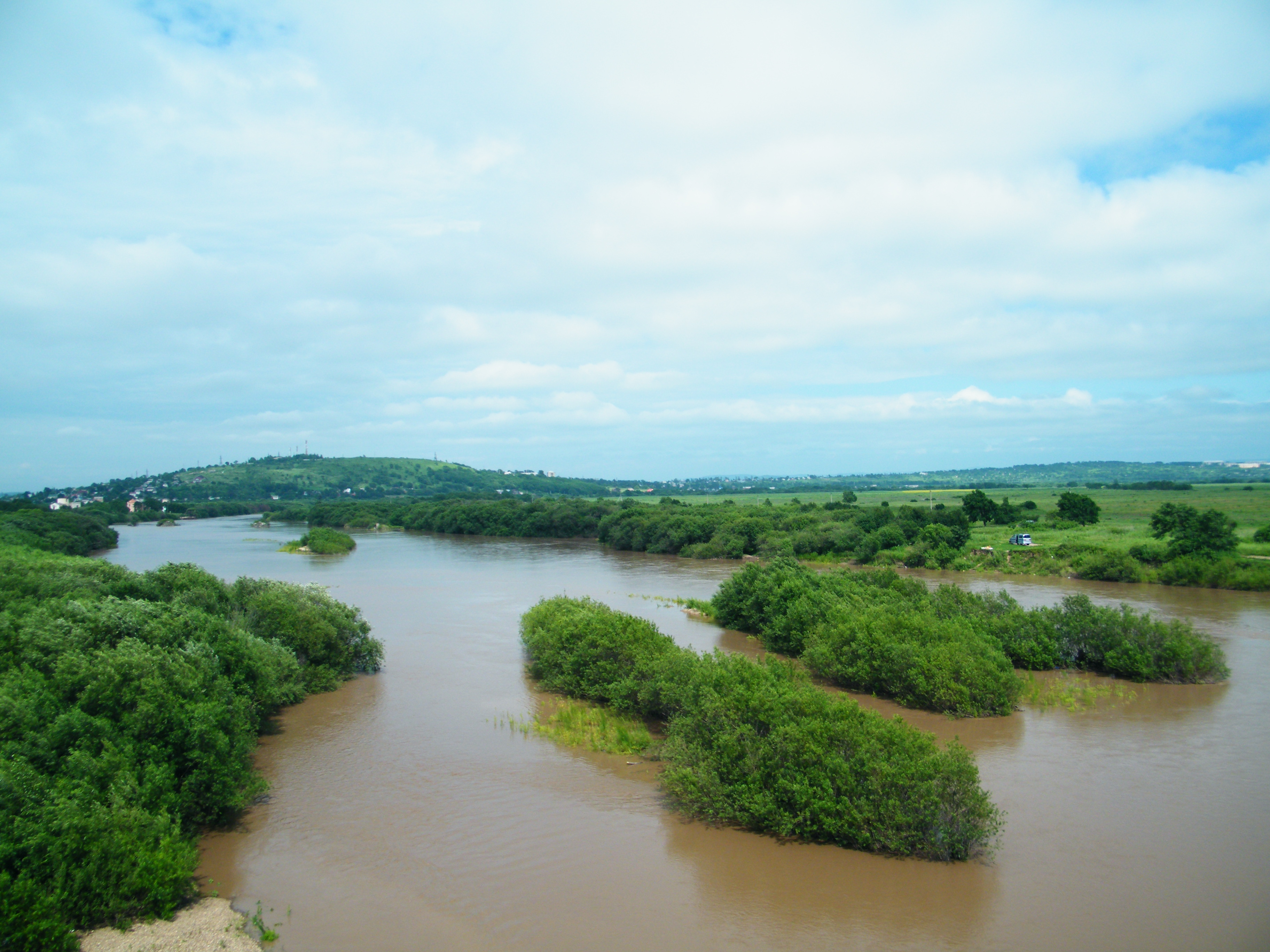 Река Раздольная у села Утёсное